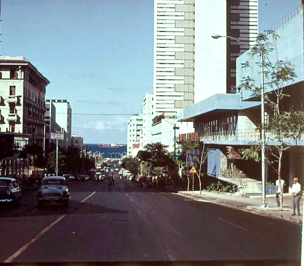 Edificio del Seguro Médico-elevation. Havana, Cuba.